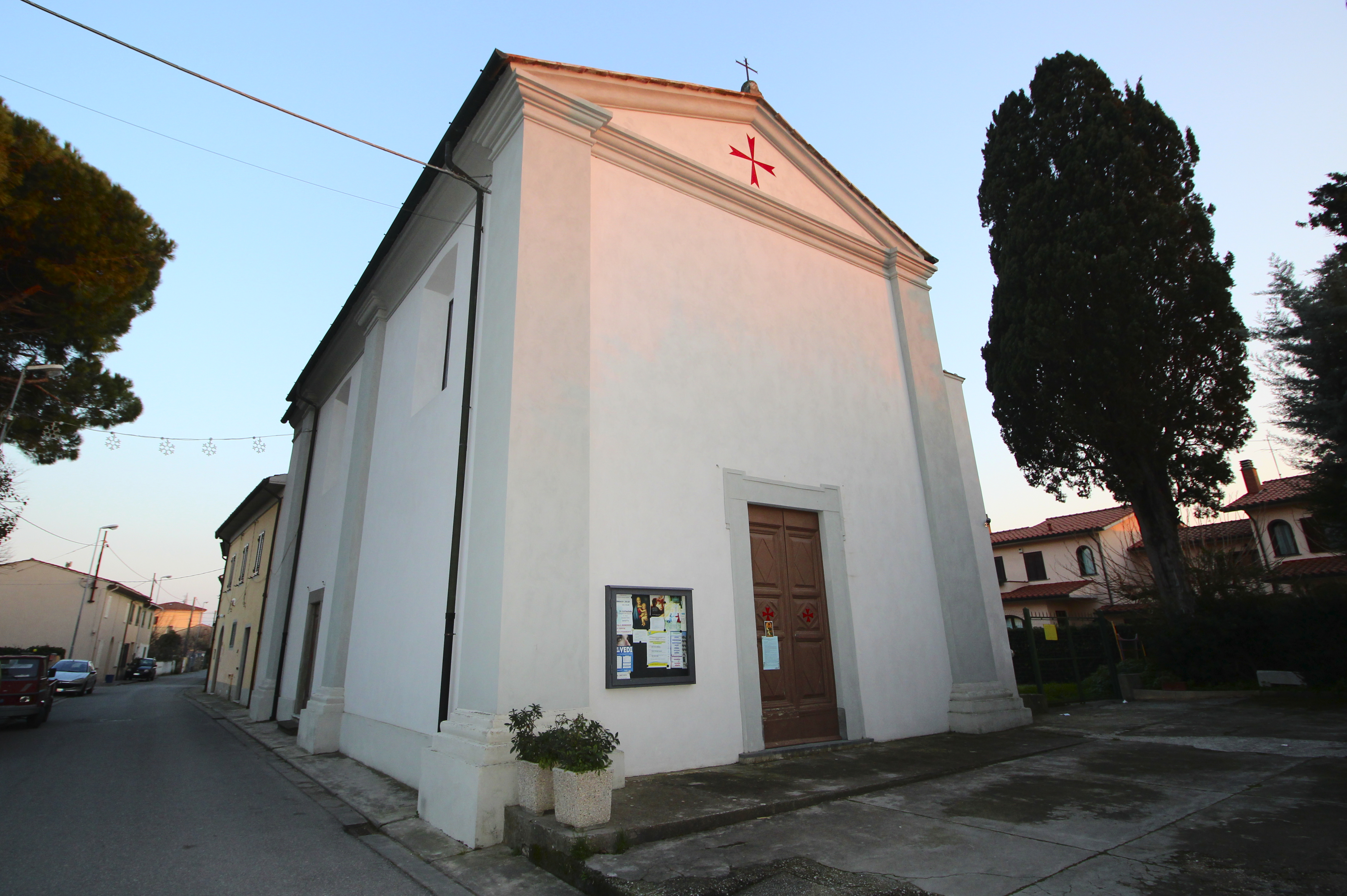 Church San Sisto, in San Sisto al Pino, hamlet of Cascina, Province of Pisa, Tuscany, Italy